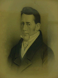 Samuel Paynter of Delaware (1768-1845), artist: Ellen L. B. Wendell (attributed), 1898, Crayon on board; 29" x 25", Courtesy of Delaware Department of State, Division of Historical and Cultural Affairs. Collection of the Delaware State Museums. Hall of Governors Portrait Gallery.